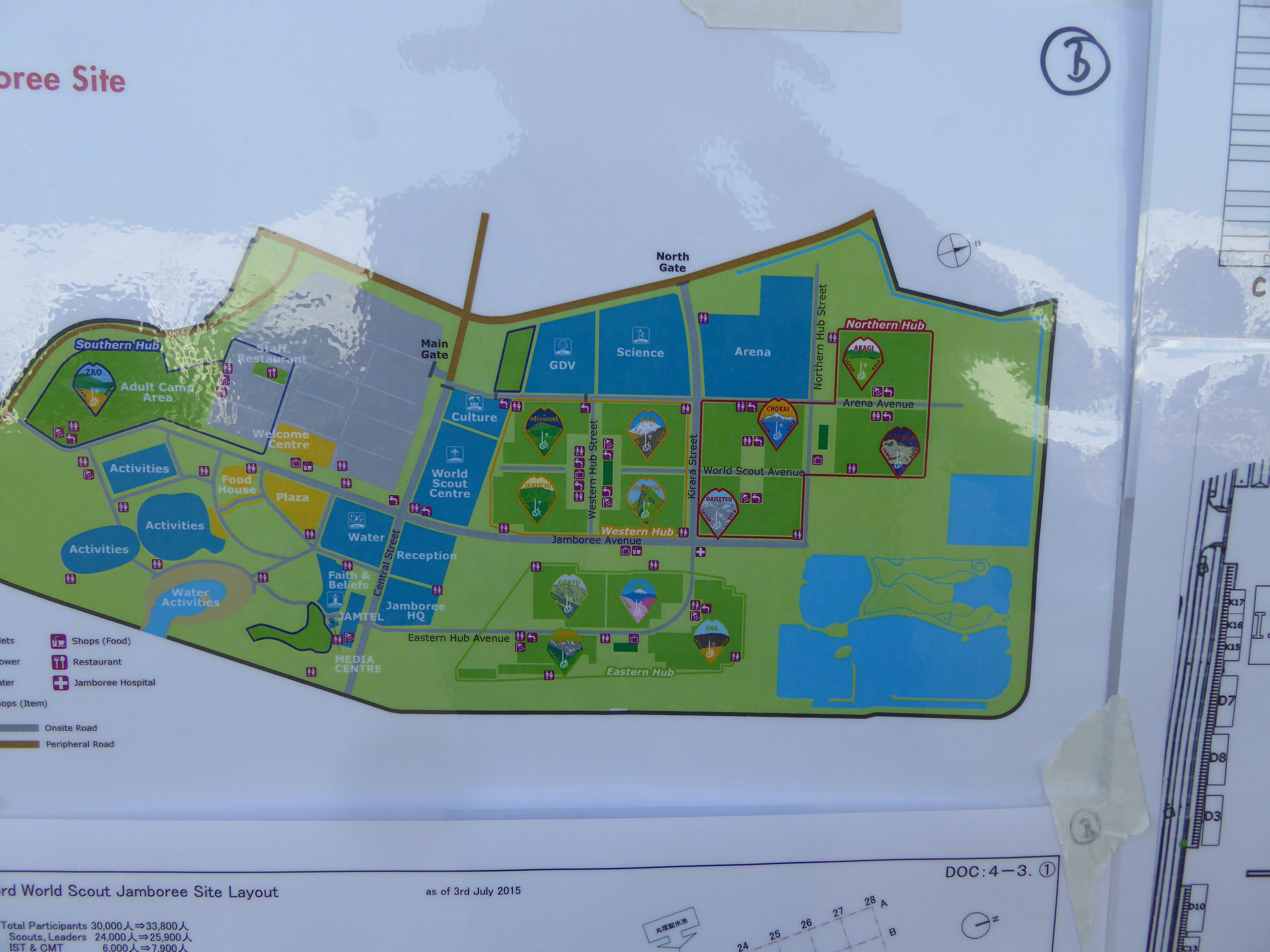 Map at the 23rd World Scout Jamboree